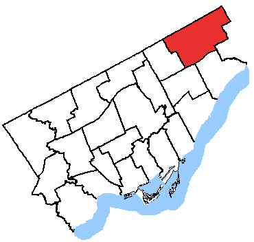 Map of the Scarborough—Rouge River electoral district. Based on Earl Andrew's :Image:Ct04.PNG and :Image:St04.PNG, created by SimonP.